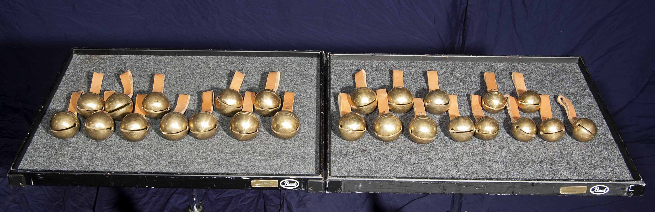 Tuned Chromatic Sleigh Bells (from Emil Richards Collection), F4-F6 range.